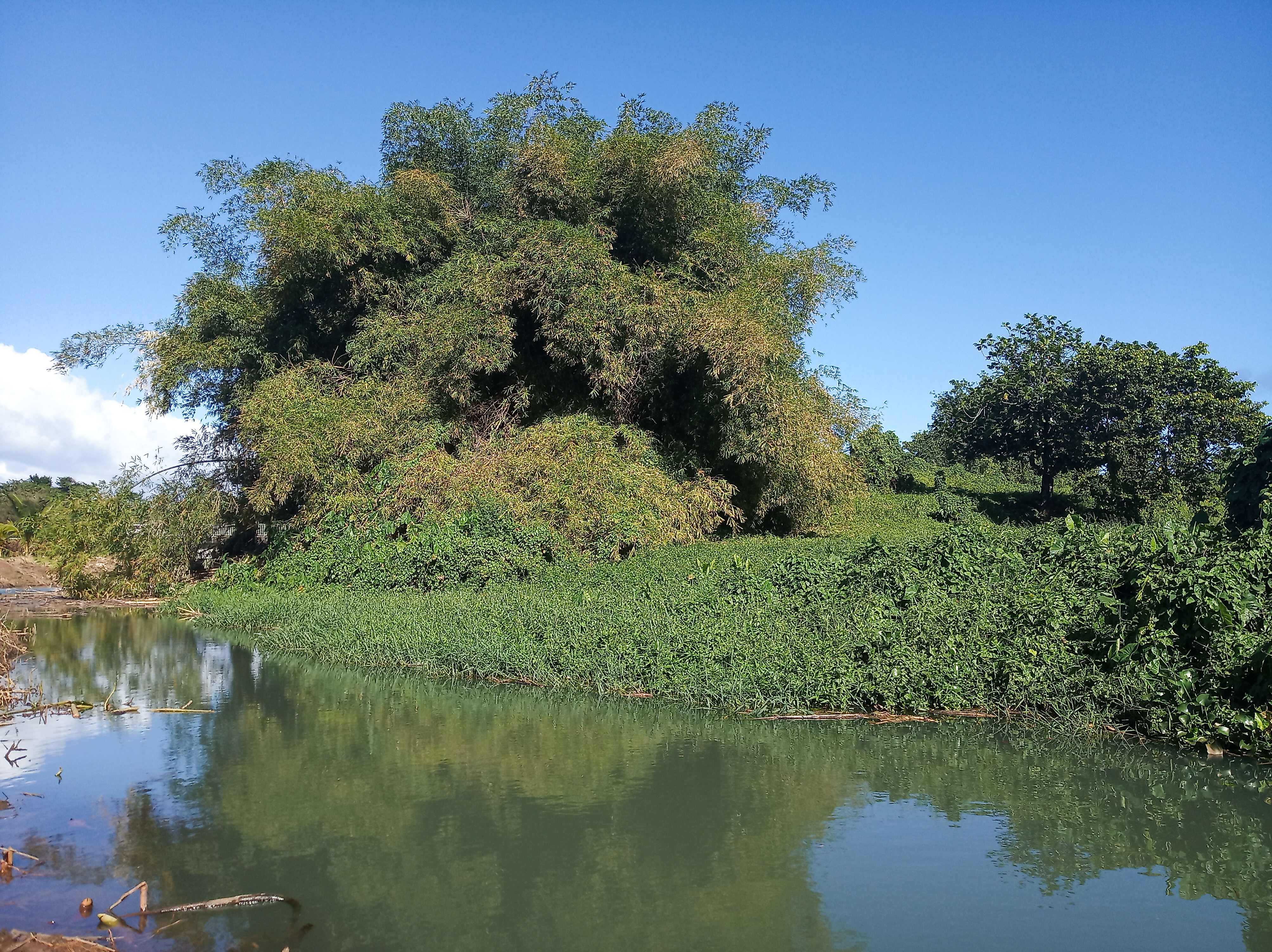 Streambed - la Sarcelle river